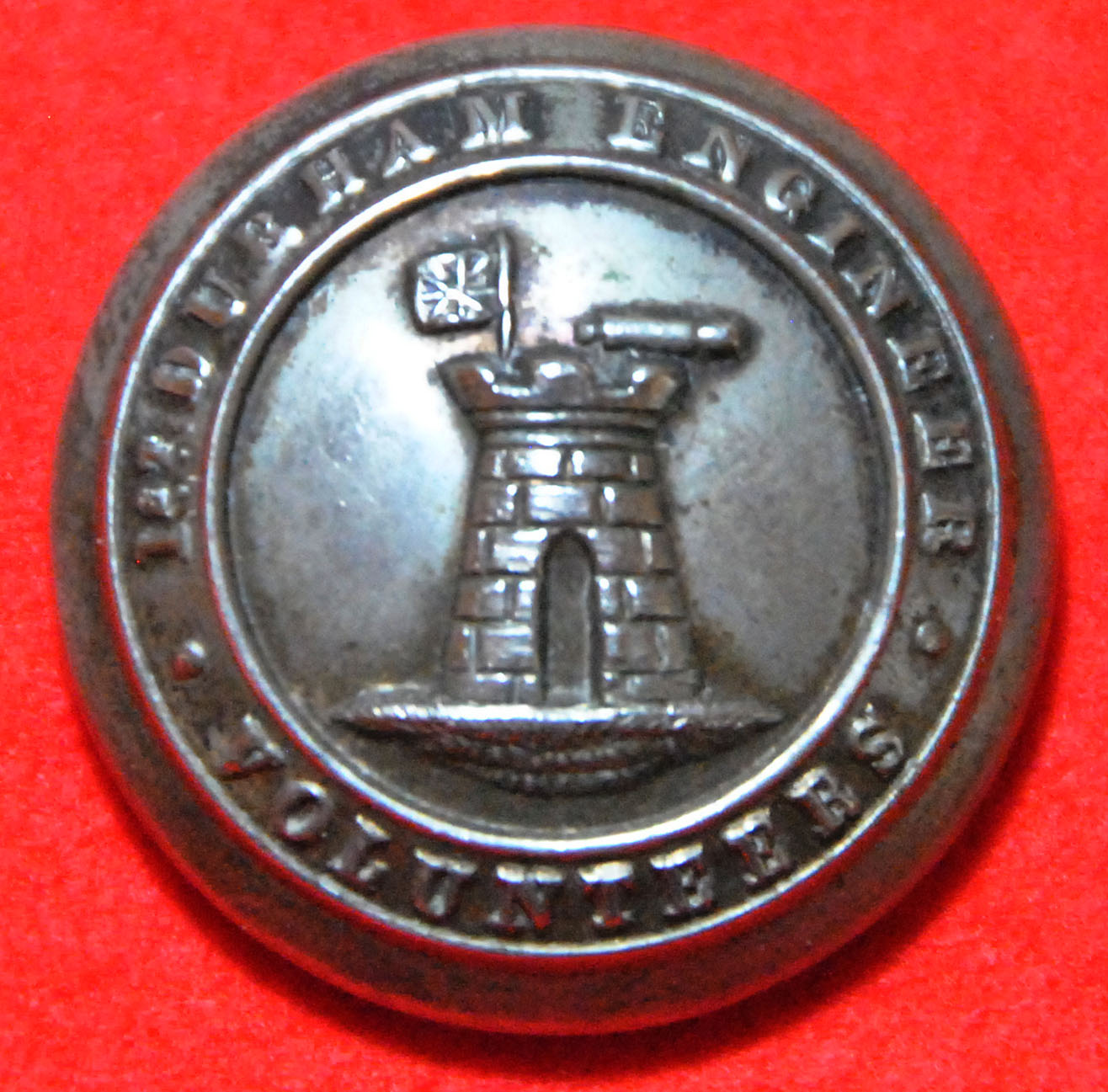 Tunic button of the 1st Durham Engineer Volunteers, 1869 - 1908.